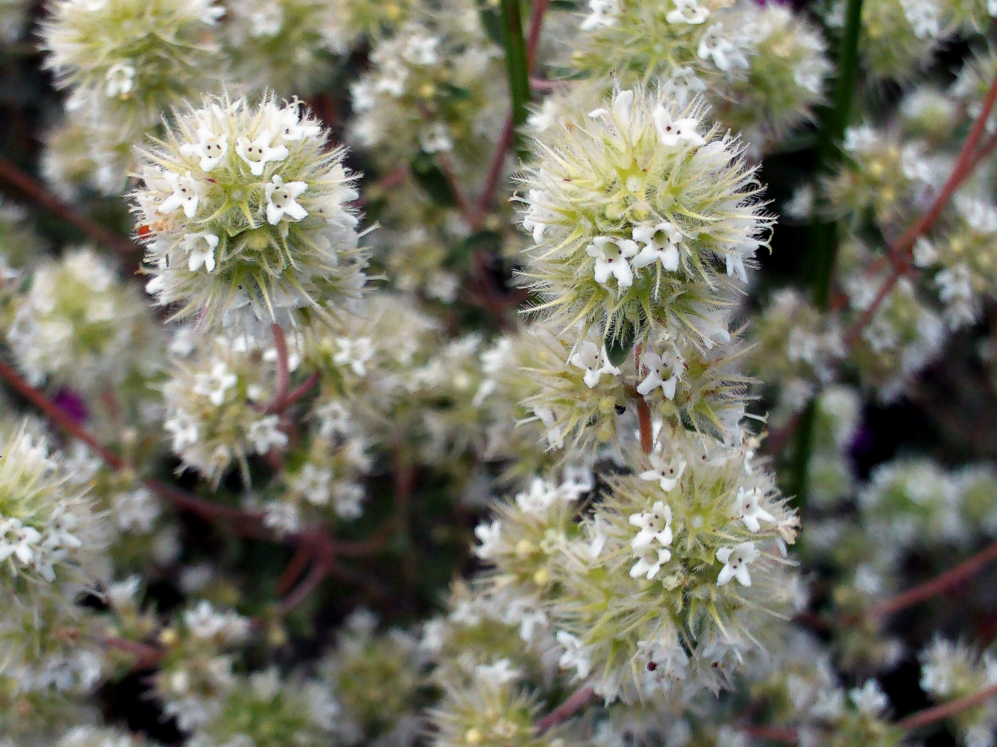 Origanum majorana flowers close up in Dehesa Boyal de Puertollano, Spain